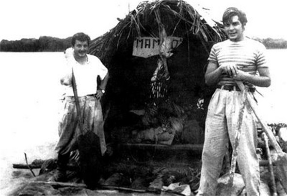 Ernesto Guevara (right) with Alberto Granado (left) aboard their "Mambo-Tango" raft on the Amazon River in June of 1952. Their trip is chronicled in Guevara's book The Motorcycle Diaries.